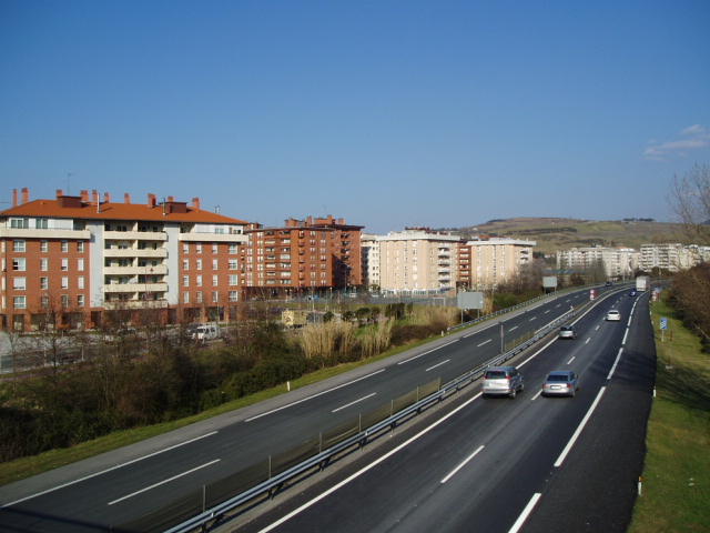 Bilbao-Behobia motorway (AP-8) close to Zarautz (Gipuzkoa).